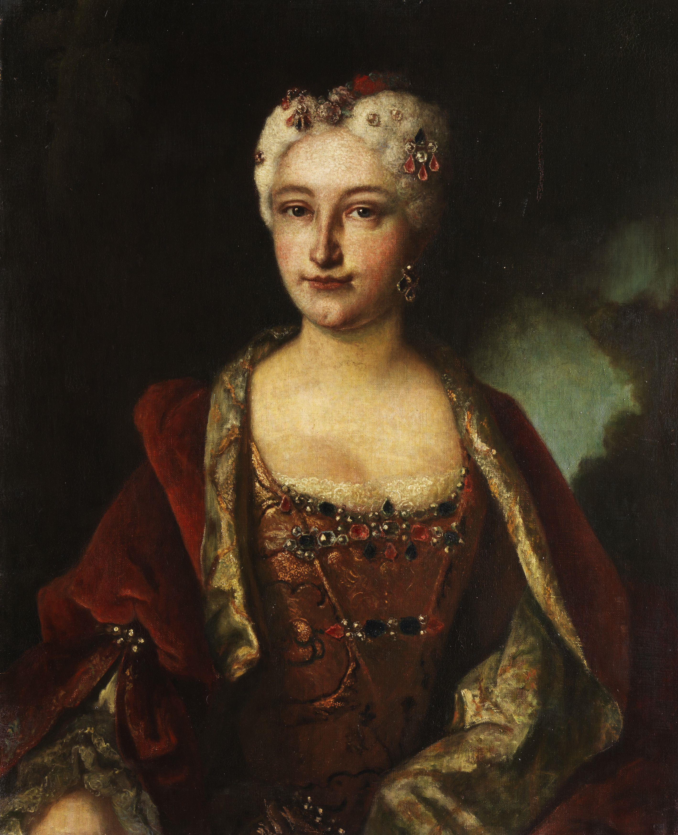 Portrait of Louise Henriette of Nassau-Saarbrücken (1705-1766)